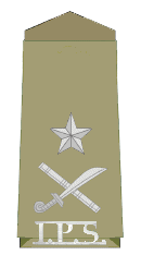 Insignia of Inspector General of Police